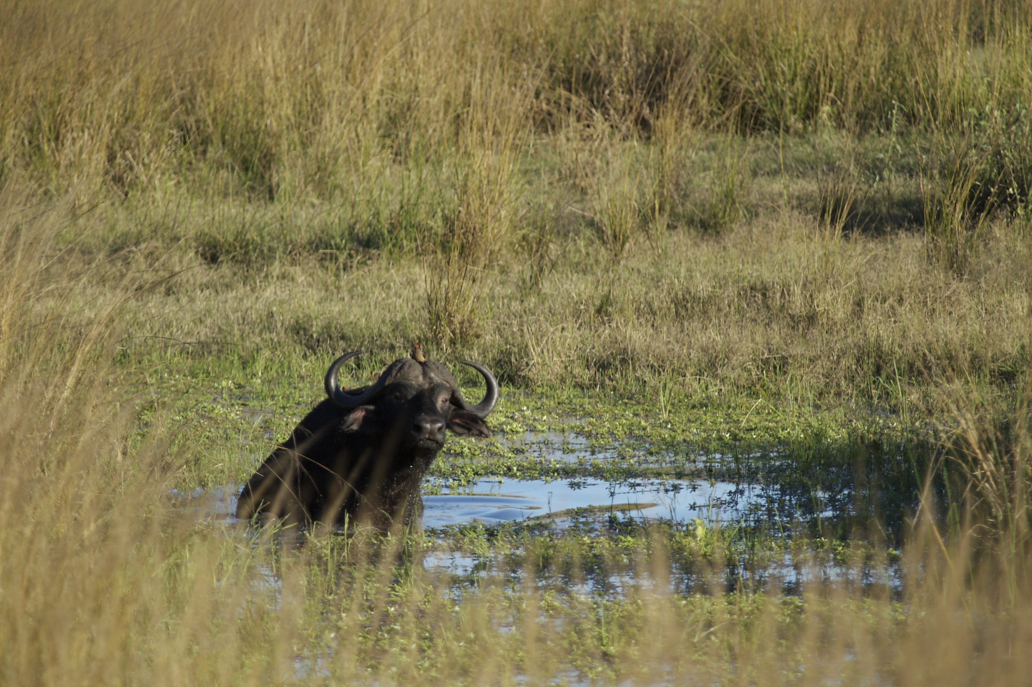 Solitary bull